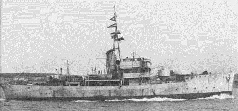 HMCS Baffin. Original caption: “Laid down: 14 October 1941 Launched: 13 April 1942 at Collingwood, Ont. Commissioned: 26 August 1942 Paid off: 20 August 1945 Fate: Scrapped in 1983 Built at Collingwood, Ont. for the RN, she was commissioned on 26 Aug 1942 as HMS Baffin. She was loaned to the RCN, though never commissioned in the RCN; and was manned by RN personnel. She was engaged in minesweeping duties out of Halifax, Nova Scotia. She was decommissioned and returned to the Royal Navy on 20 Aug 1945. In 1947 she was sold for commercial use under the same name, becoming Niedermehnen in 1952. Subsequently named Kellenhusen, Kairos and Theoxenia, she was scrapped in 1983.”